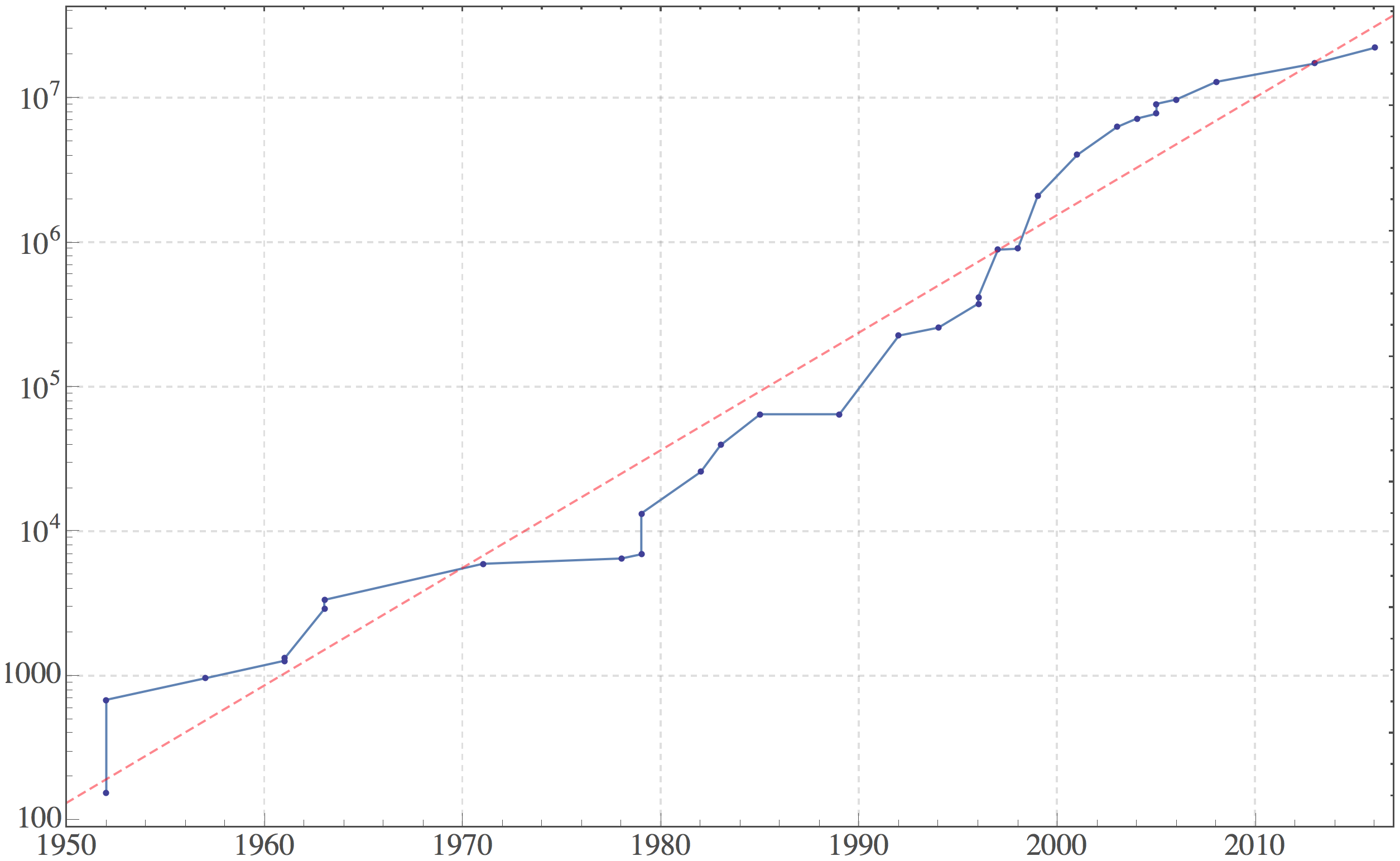 Plot of the number of digits in largest known prime by year, since the electronic computer. Note that the vertical scale is logarithmic. The red line is the exponential curve of best fit: y = exp ⁡ ( 0.187394 t − 360.527 ) {\displaystyle y=\exp(0.187394t-360.527)} .